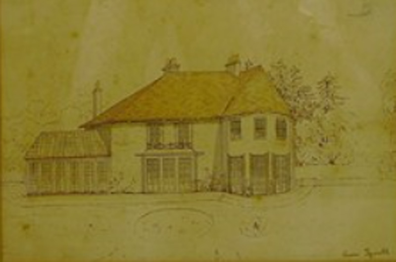 Drawing of Avon Tyrrell Manor, Sopley, Hampshire 1850